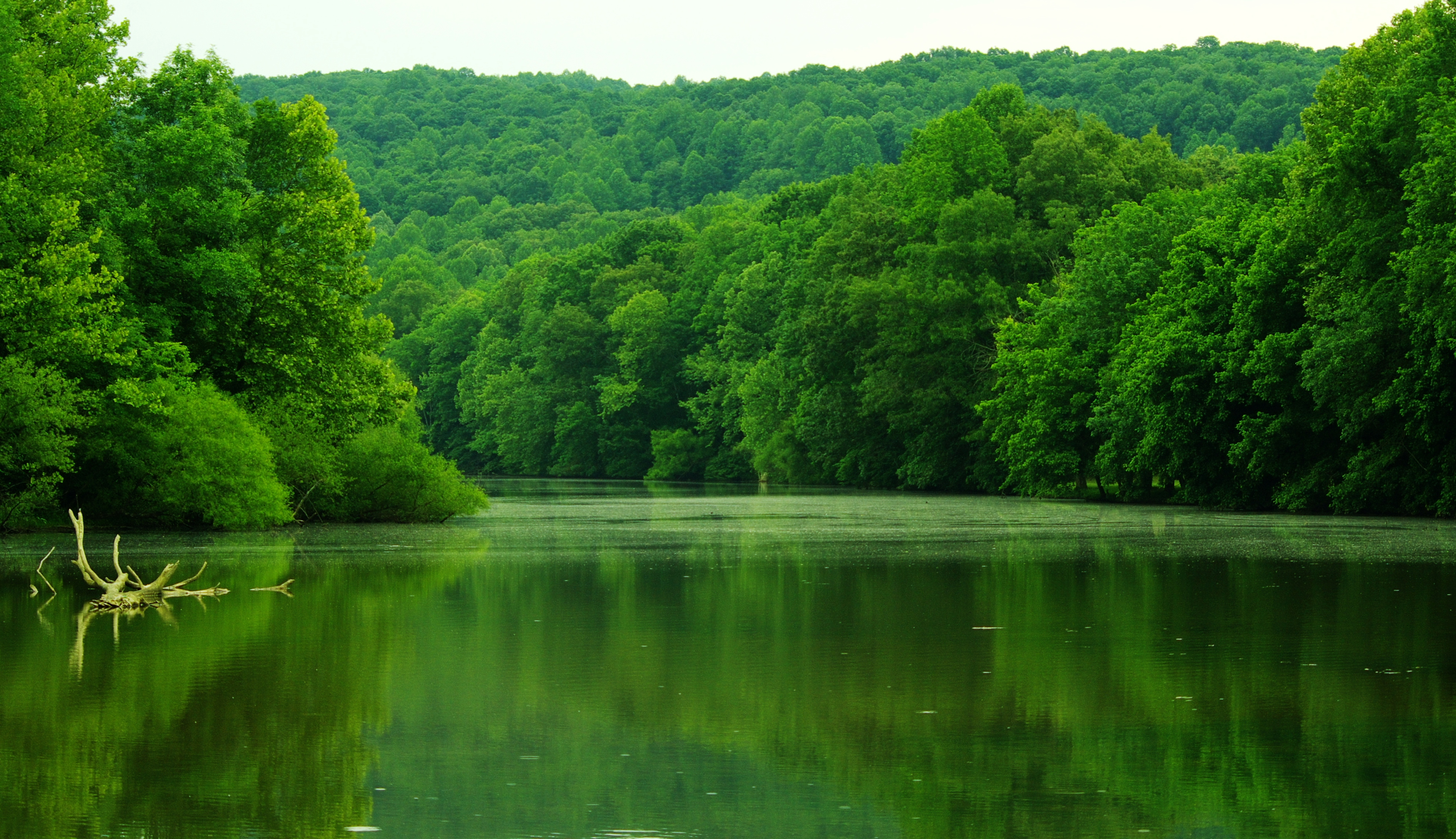 City Lake, an impoundment of the Falling Water River in Cookeville, Tennessee.